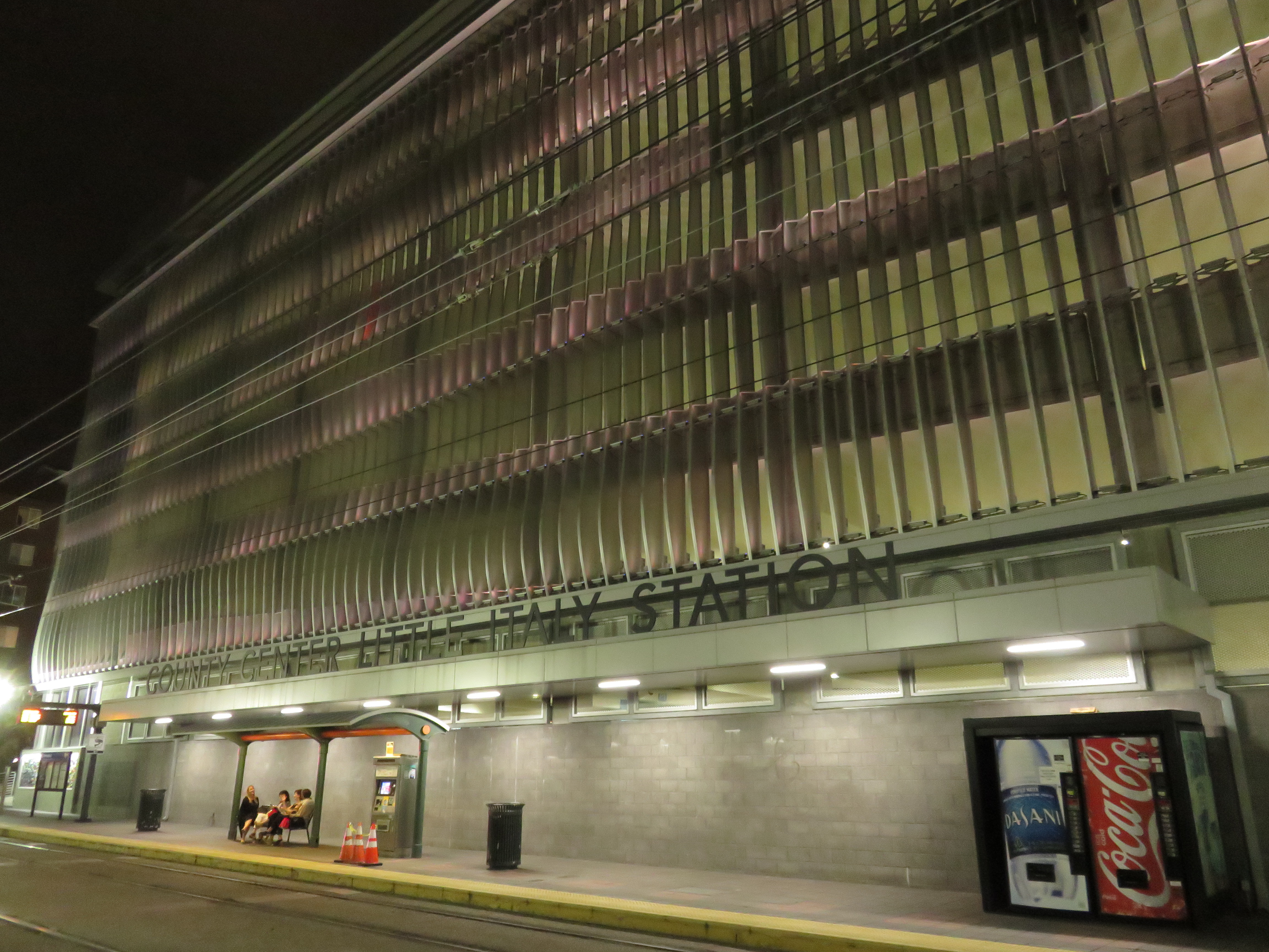 County Center/Little Italy San Diego Trolley station at night in 2019